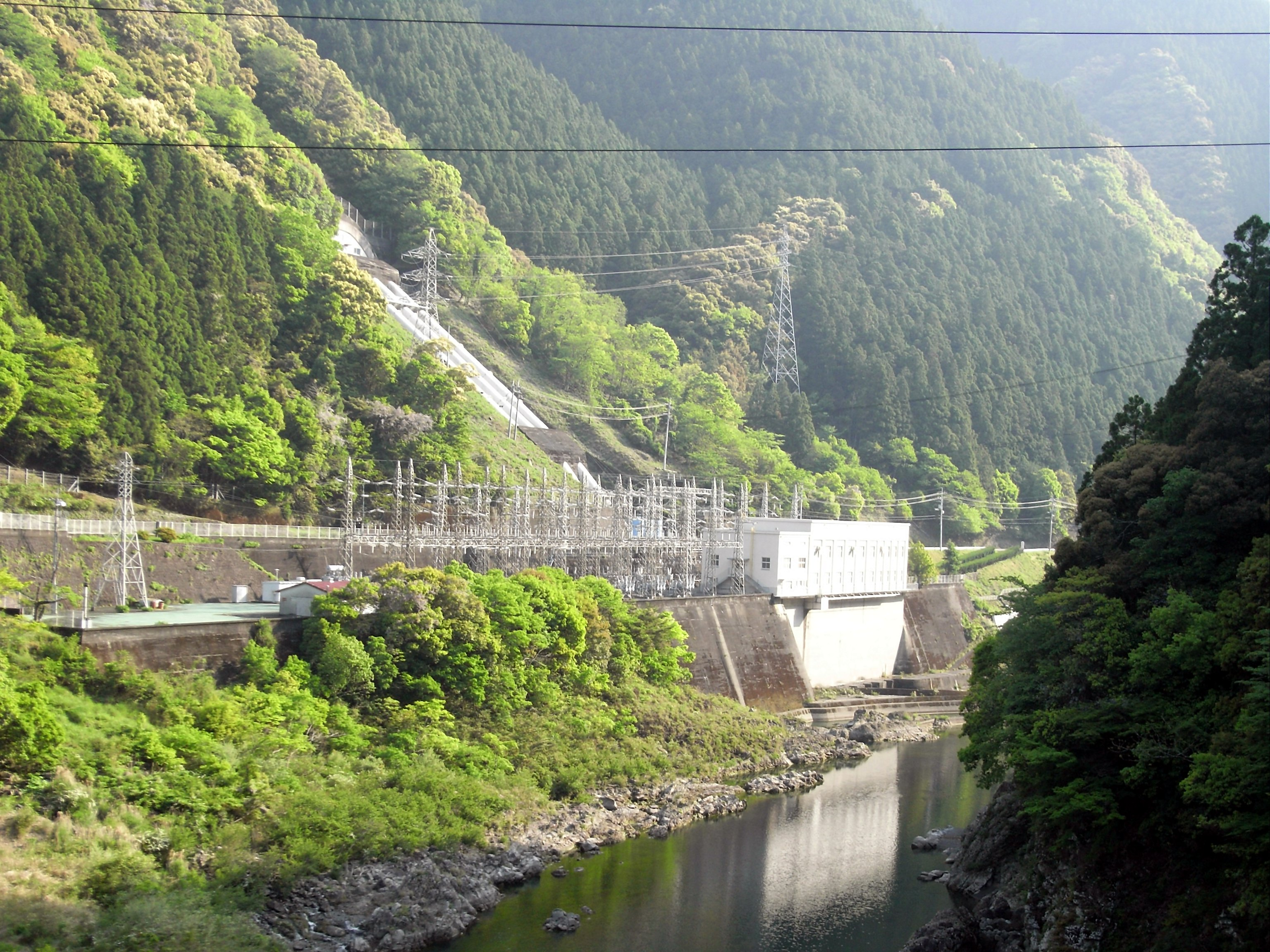 Hinotani power station(Nakagawa river/Tokushima Pref./Japan)